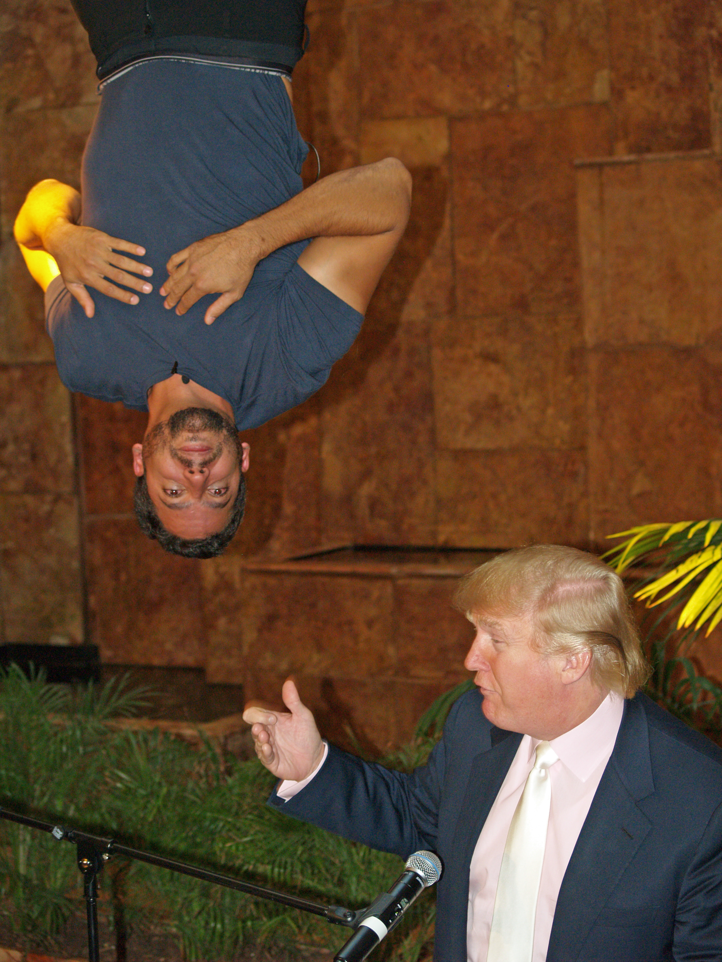 Donald Trump at a press conference with David Blaine announcing Blaine's latest feat, The Upside Down Man, in New York City at the Trump Tower.